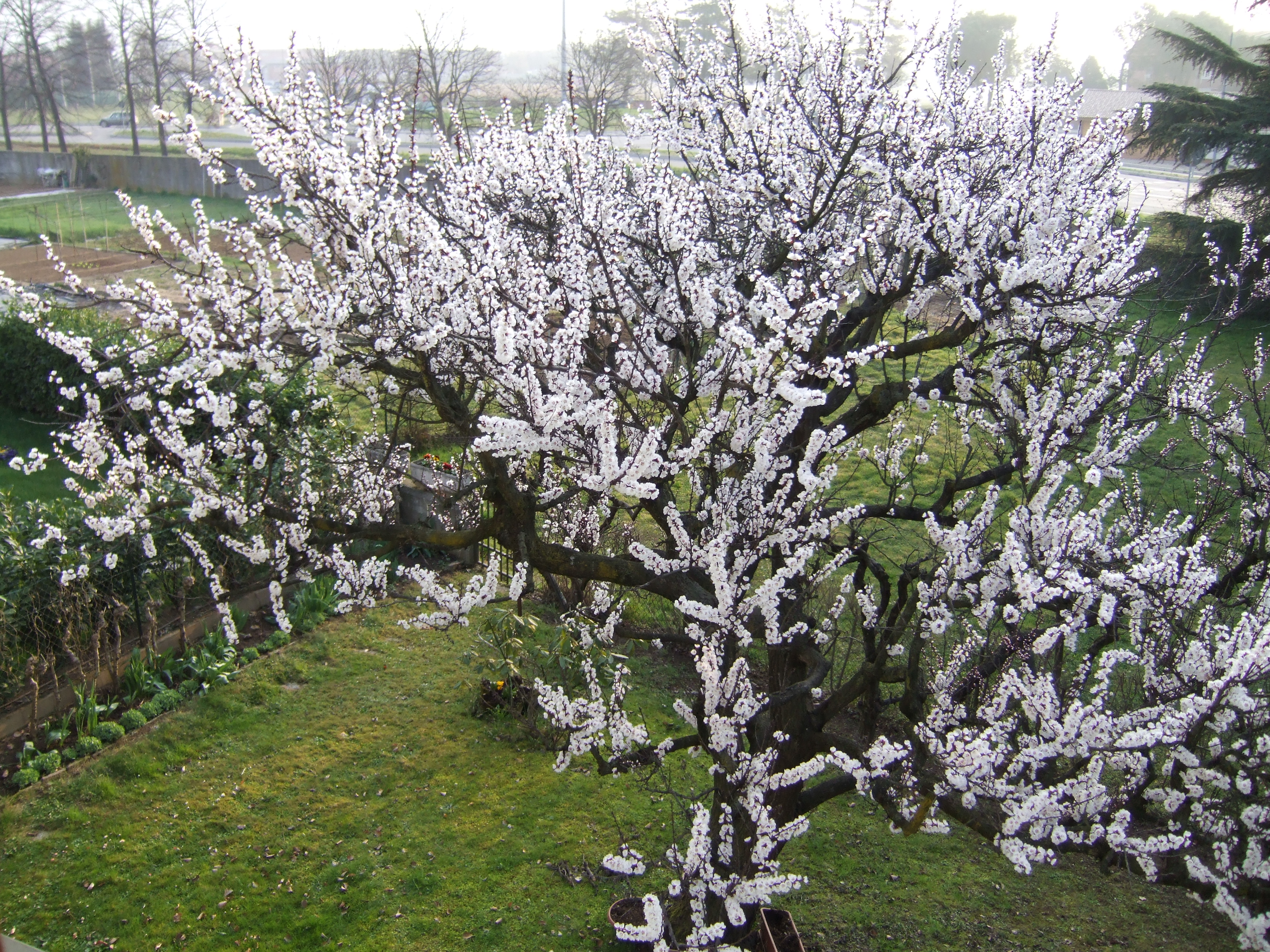 Apricot-tree in full blossom (Italy)